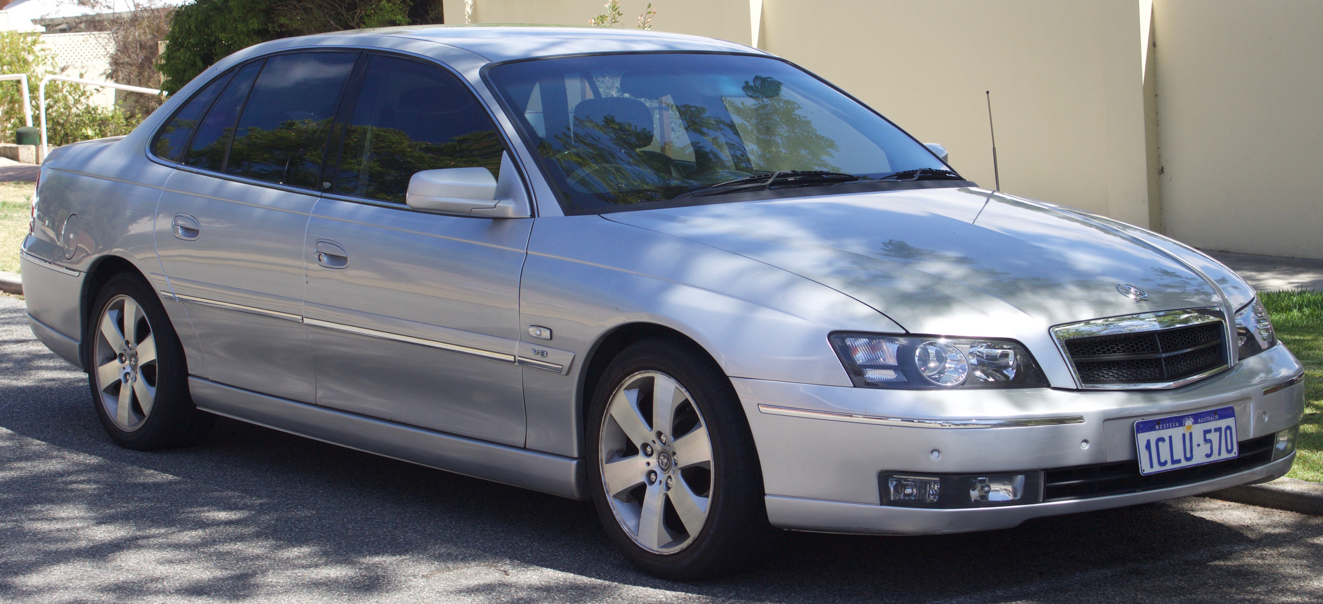 2004-2006 Holden Caprice (WL) sedan. Photographed in West Leederville, Western Australia, Australia.